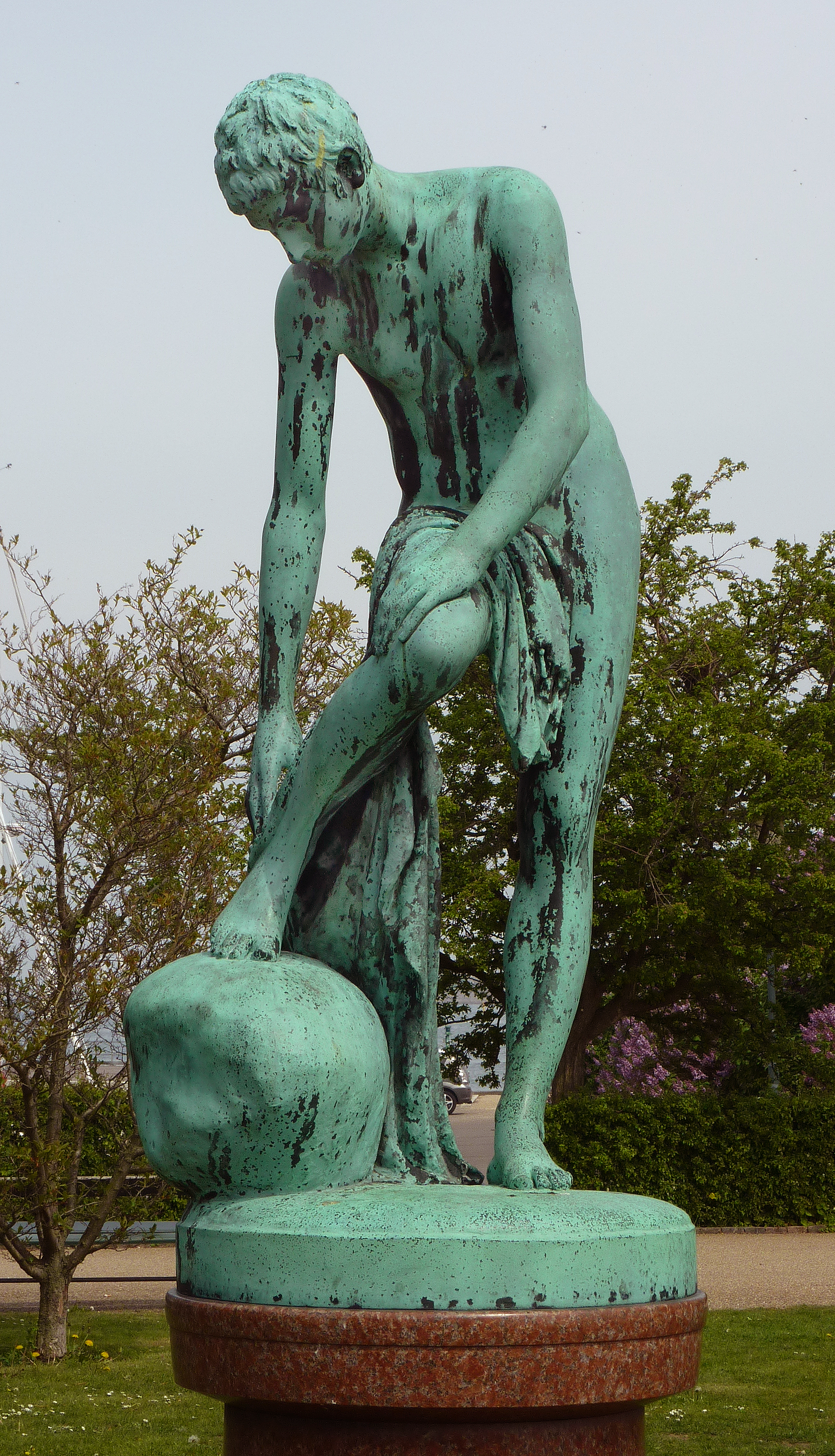 The sculpture "After the Swim" (Efter badet) by Carl Aarsleff at Langelinie in Copenhagen, Denmark